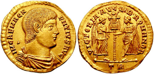 Magnentius AV Solidus. IM CAE MAGNENTIVS AVG, bare headed, draped & cuirassed bust right / VICTORIA AVG LIB ROMANOR, Victory on left, standing right & holding a palm; Libertas on right, standing left holding transverse sceptre, both supporting trophy on shaft between them, TR in ex. RIC 247 of Trier, Cohen 46.